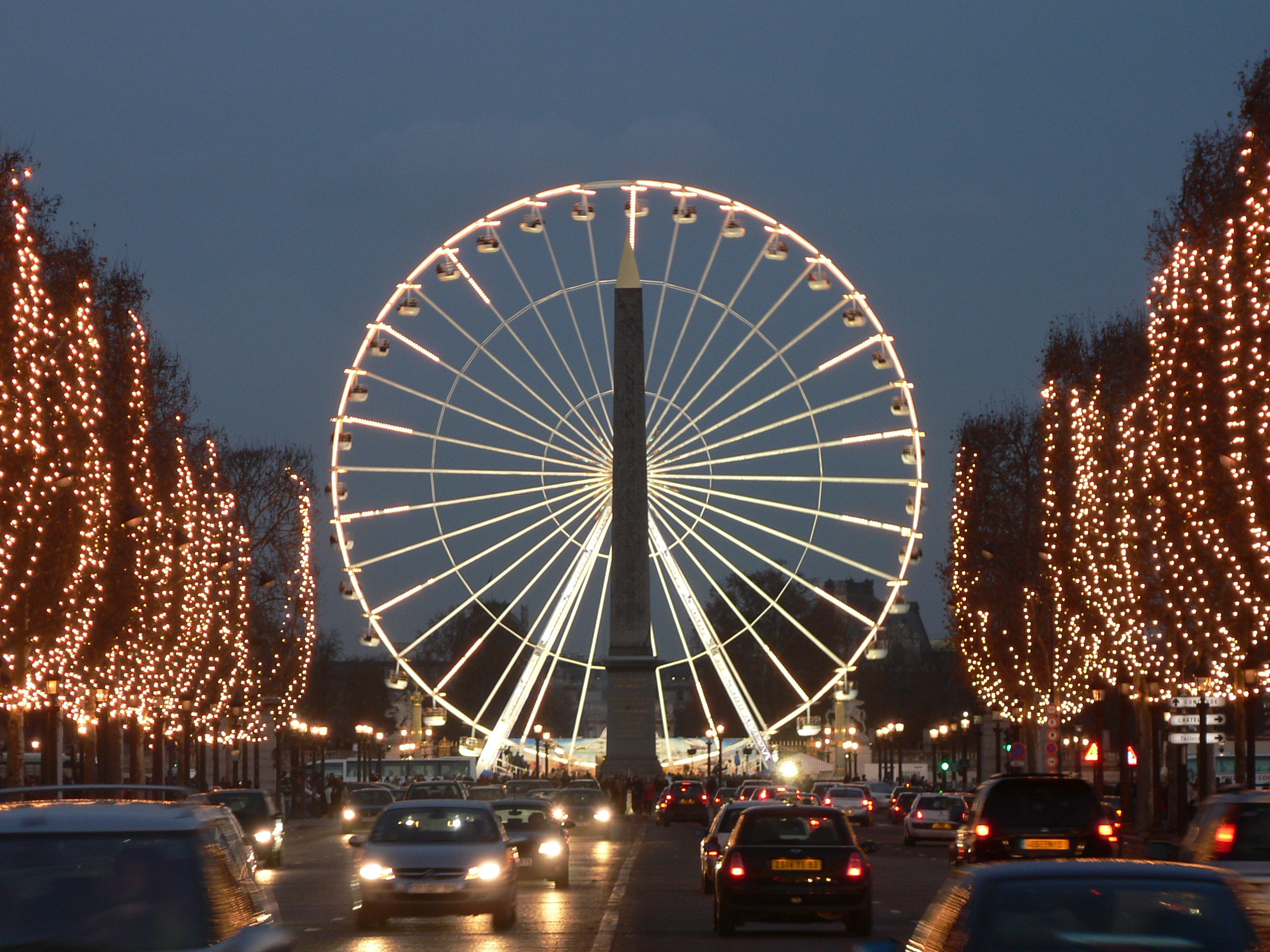 Paris, France:The Place de la Concorde and its Ferris wheel seen from the Champs-Élysées, with end-of-year festive lighting, December 31st, 2005